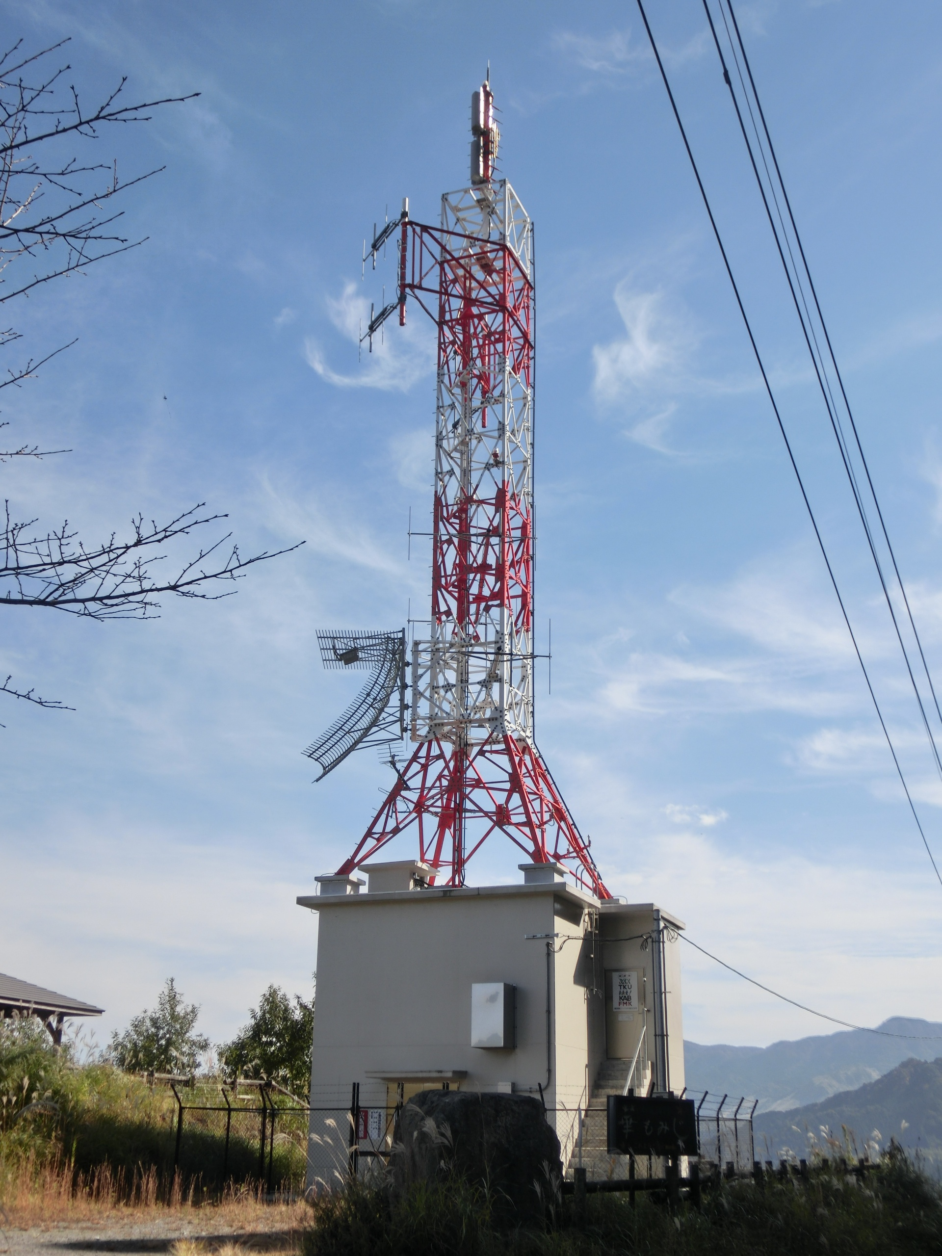 Minamiaso Digital TV and FM Radio Relay Station in 2019 (Minamiaso Village, Kumamoto, Japan).